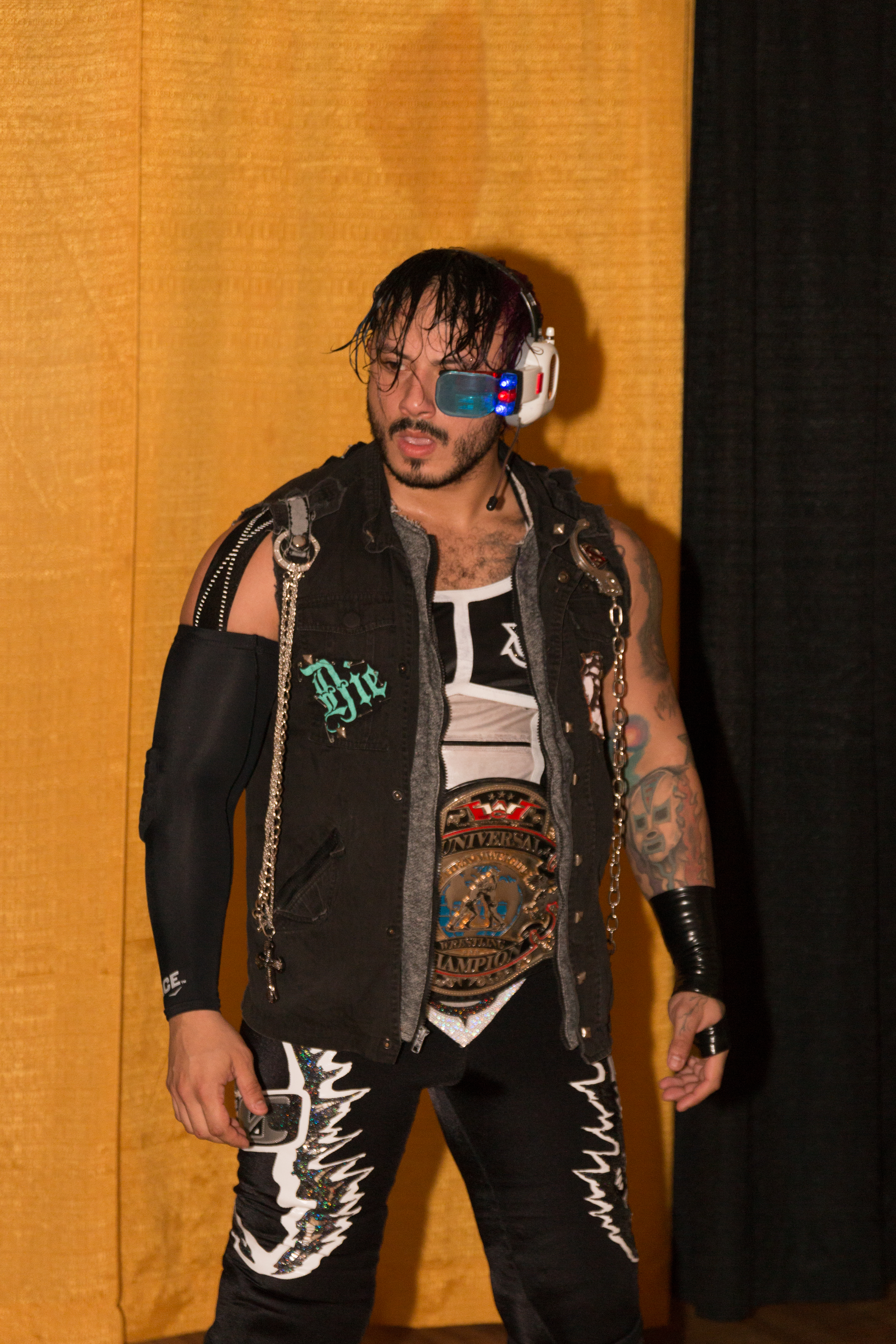 Mr. 450 making his ring entrance at a LuchaTO show in Etobicoke